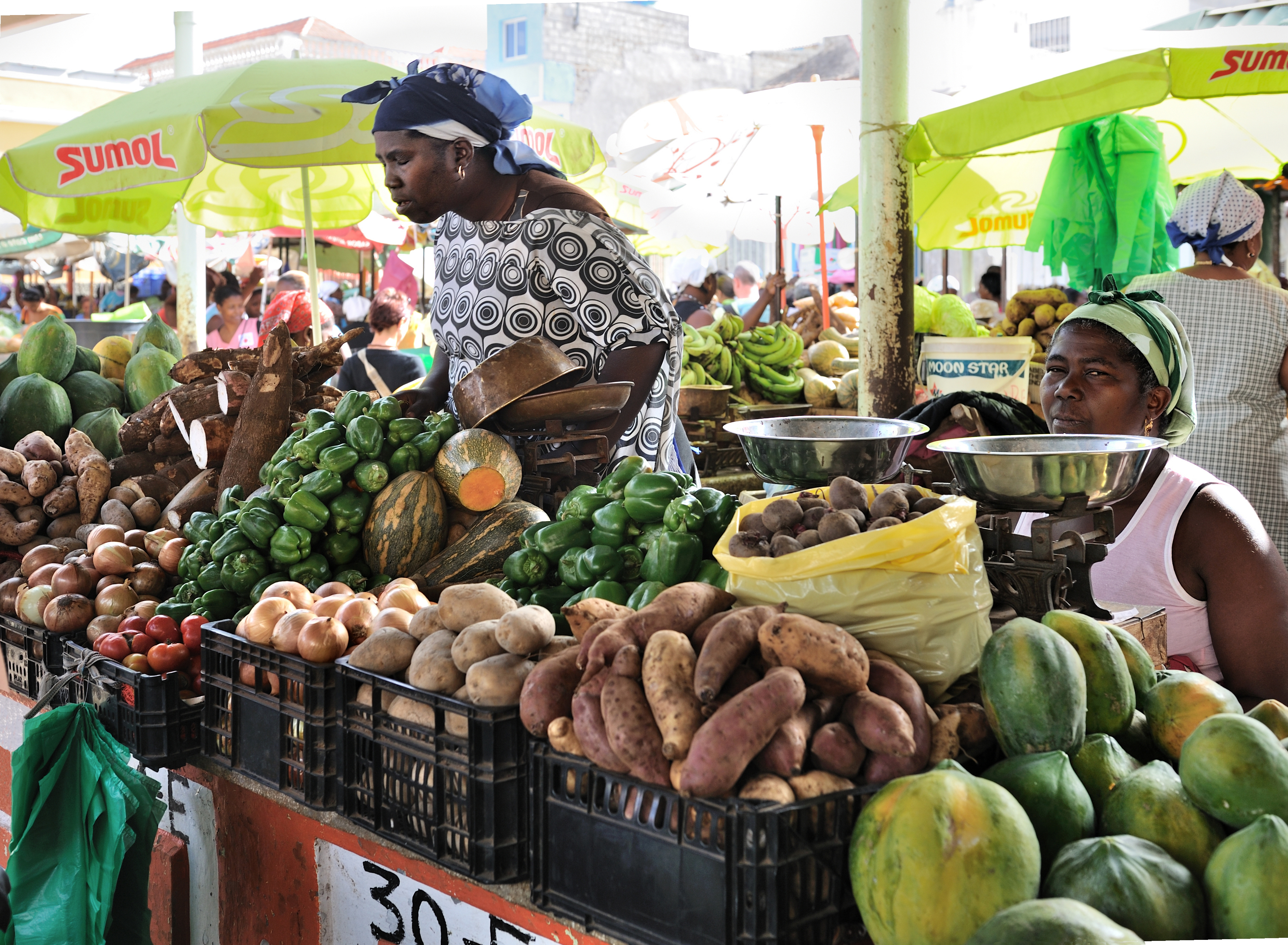 Market hall at Praia, the capital of Cape Verde.